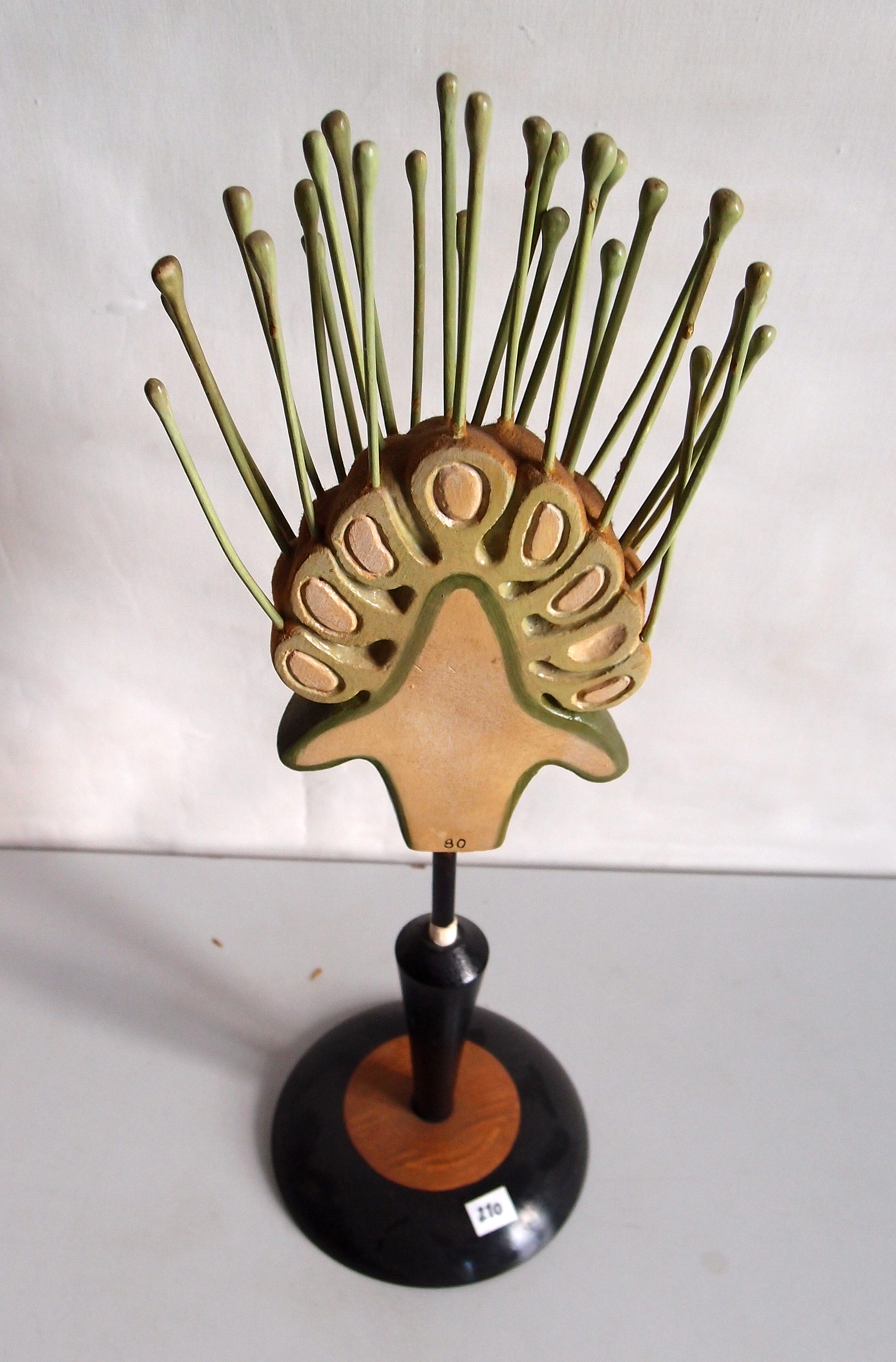 Model from the collection of the Botanical Museum in Greifswald, Germany. .see also for more information on the models